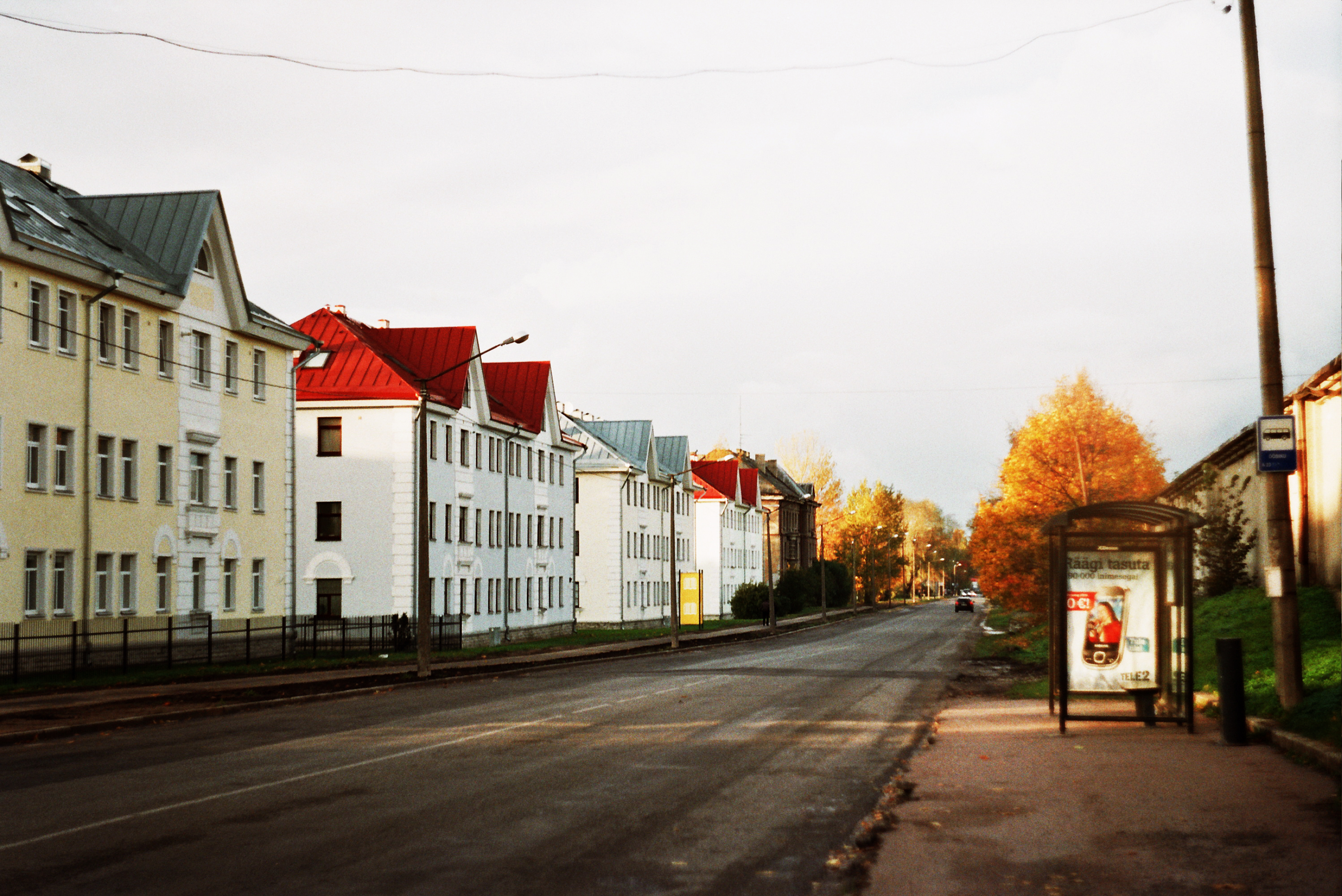 Lilleküla, Tallinn, Estonia